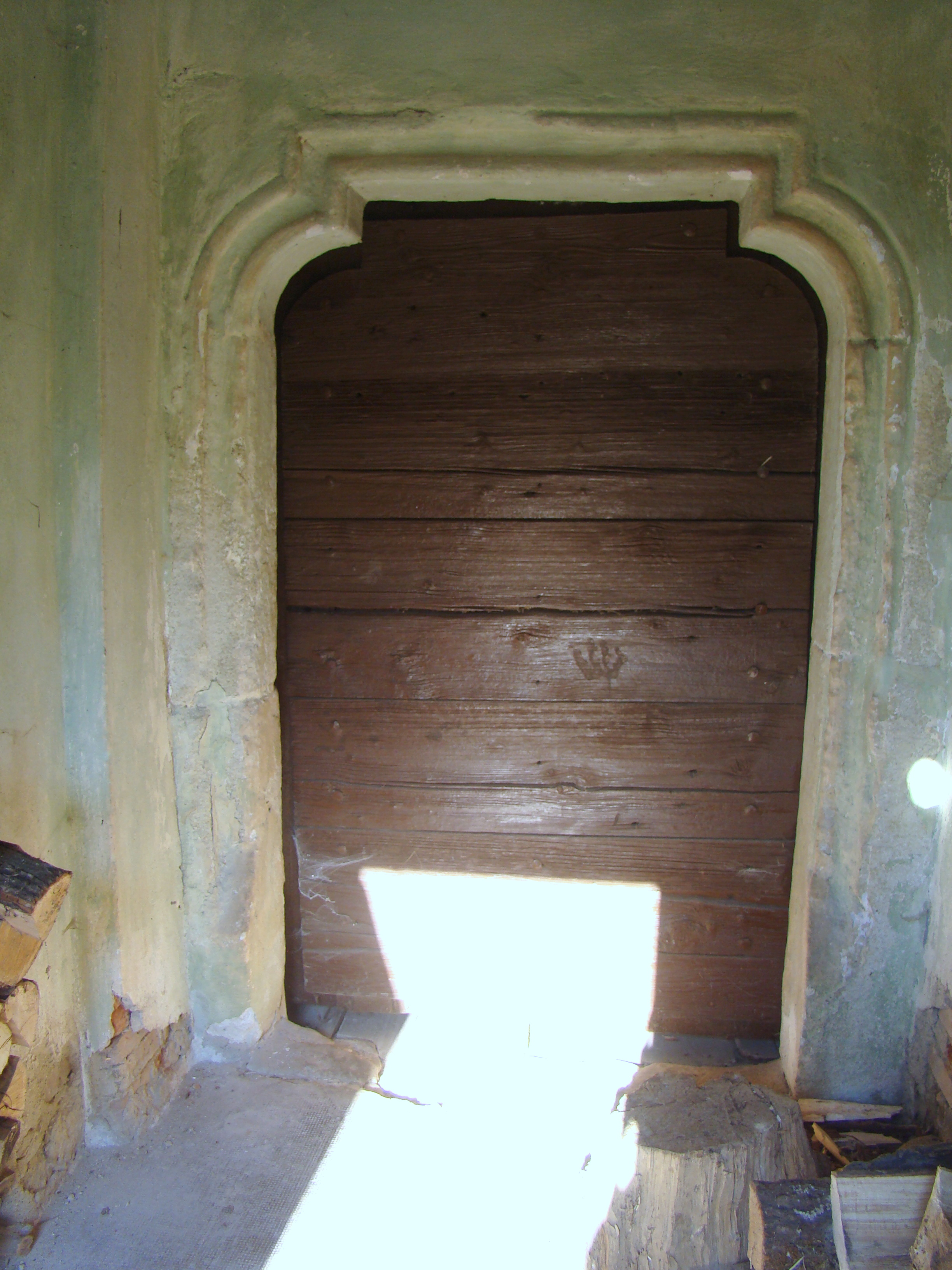 Lutheran church in Posmuș, Bistrița-Năsăud county, Romania